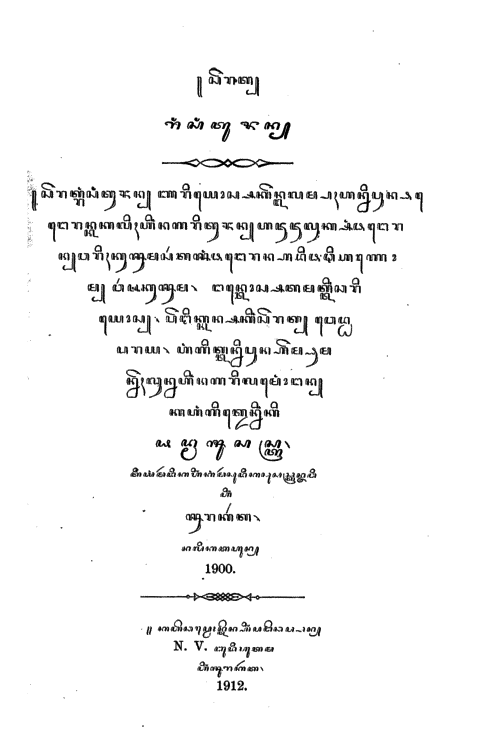 scanned page